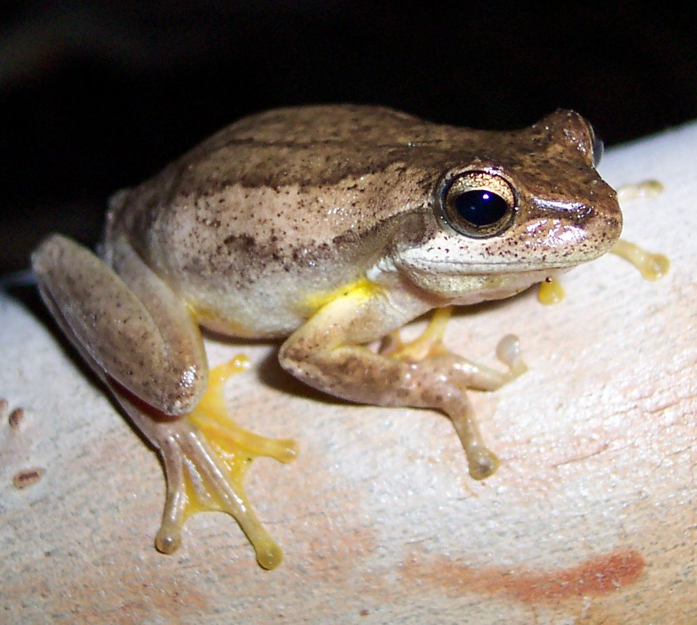 This is a Litoria jervisiensis from Jervis Bay. Category:Frog images